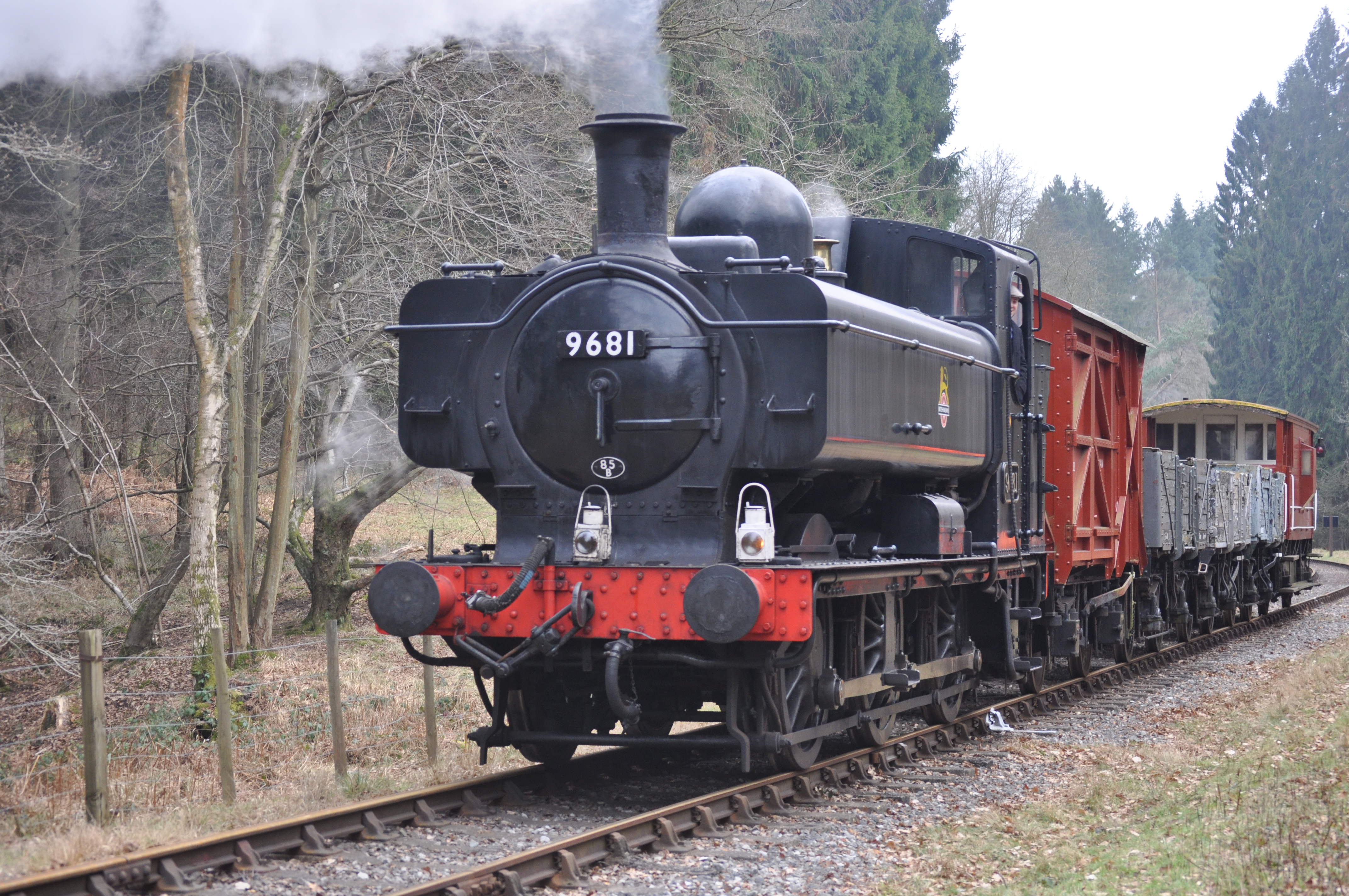 57xx Pannier tank 9681, approaching Oakenwood No. 3 foot crossing, just south of Parkend on the Dean Forest Railway